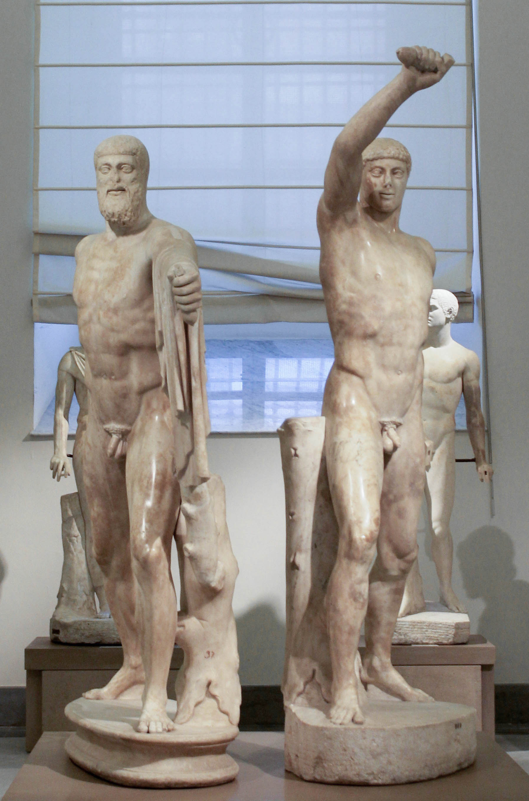 Harmodios_and Aristogeiton, the Tyrannicides. Copy of an original group of about 475 BEC, from Hadrian's villa, Tivoli. Aristogeiton's (the older man) head is missing, restored from a copy in the Conservatori Museum, Rome. (Naples G103-4) H. 1.95 m, with the plynth.